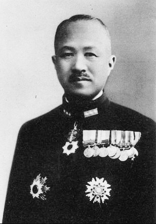 Takayoshi Katou was an Imperial Japanese Navy admiral.